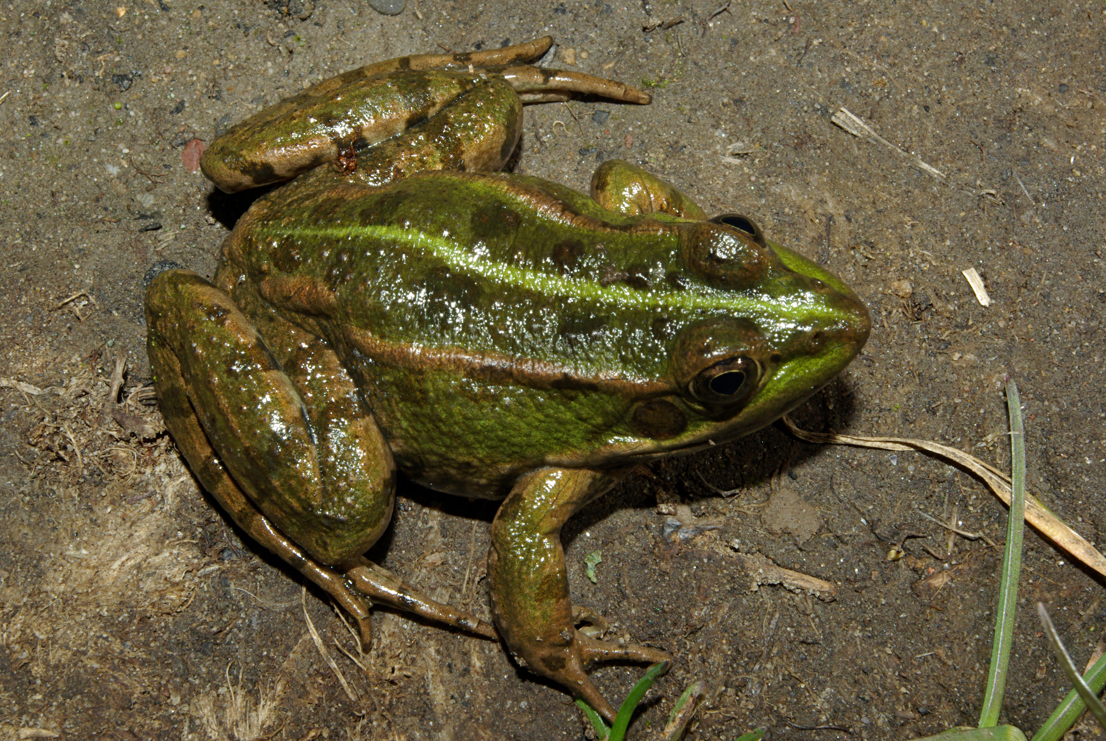 Perez's frog (Pelophylax perezi). River Porma, León (Spain).